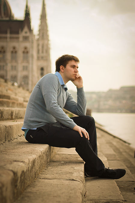 chess